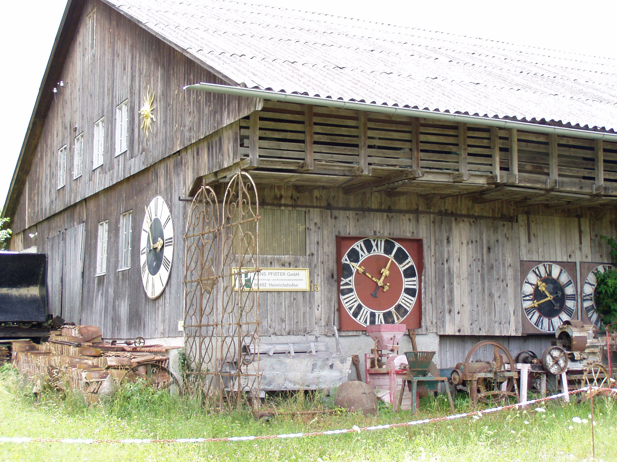 Turmuhrenmalerei in Heinrichshofen, Egling an der Paar